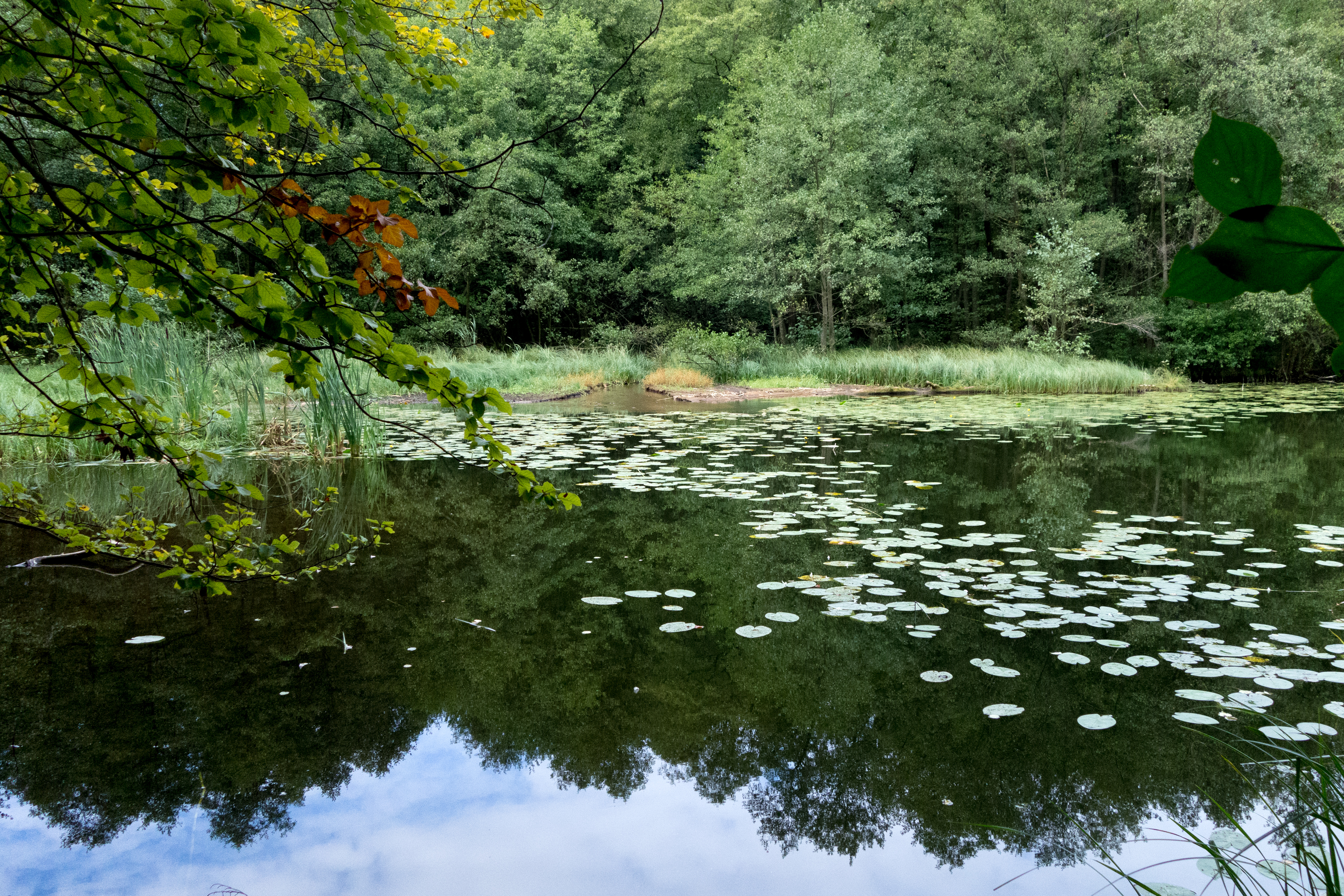 Lubniewsko Range, Lubusz Voivodeship (Poland)